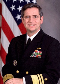 Vica Admiral Joseph A. Sestak, Jr., USNDeputy Chief of Naval Operations for Warfare Requirements and Programs